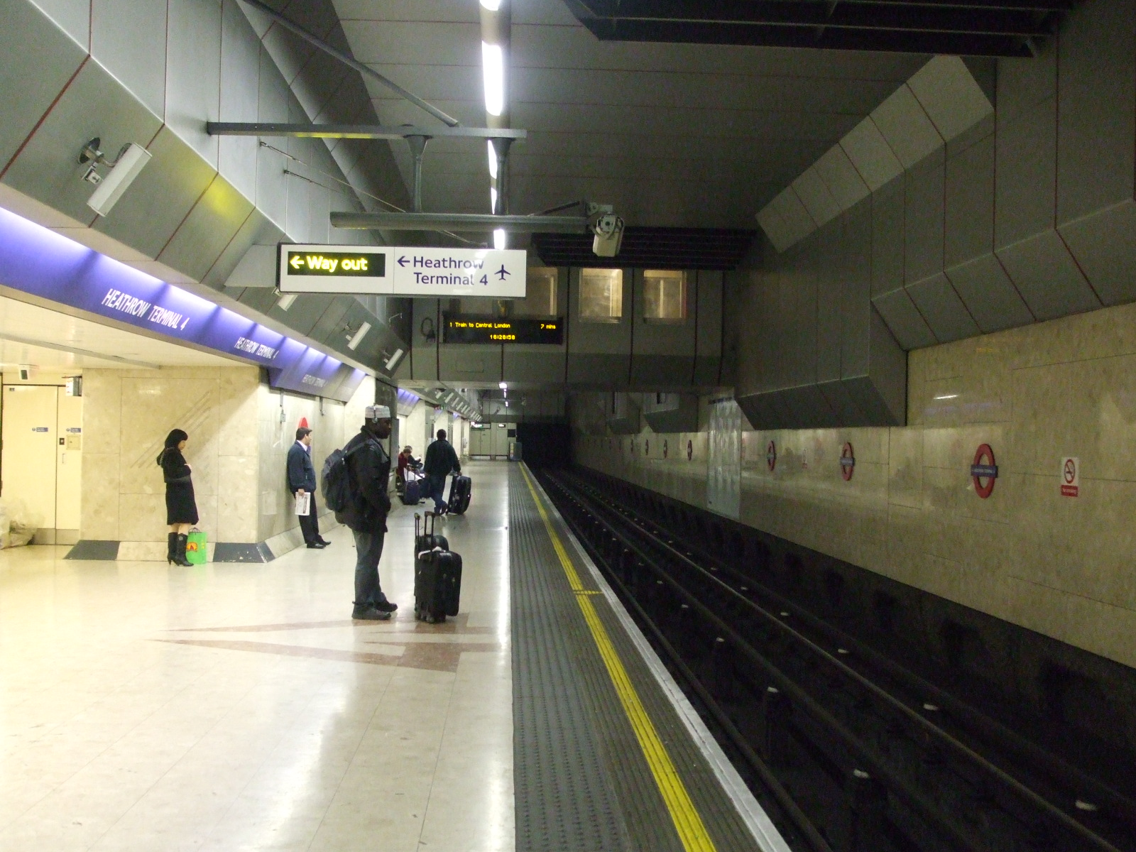 Looking east along the westbound-only platform at Heathrow Terminal 4 tube station